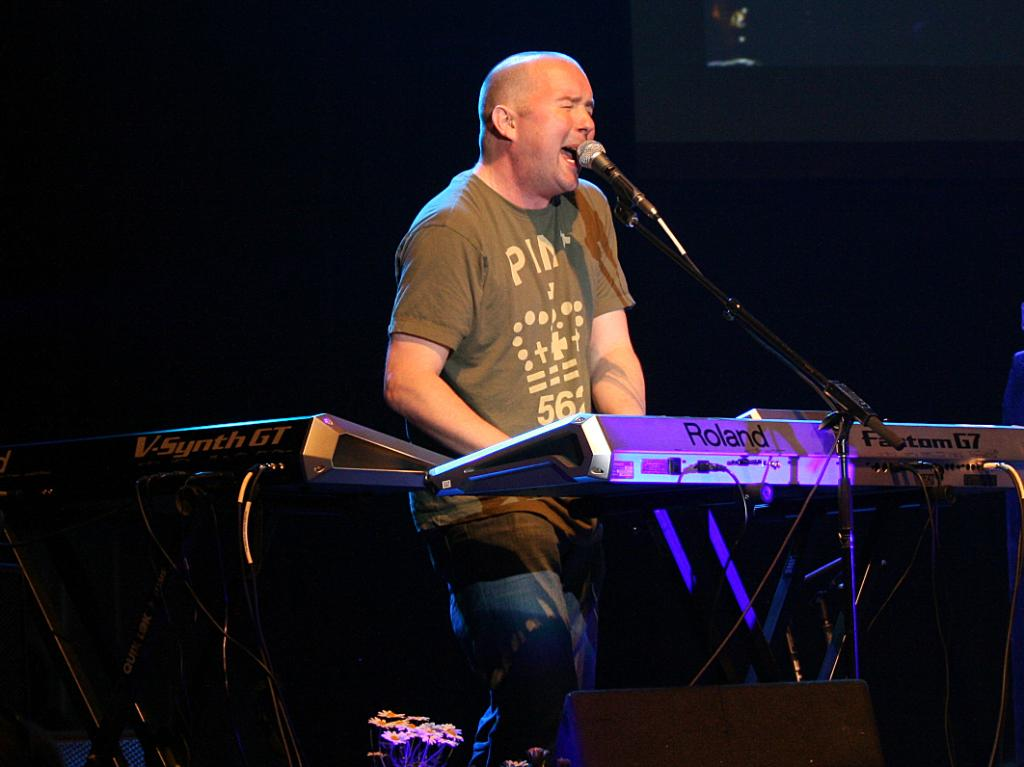 Jem Godfrey on stage live with Frost at Rosfest at the Keswick- 5/02/09.